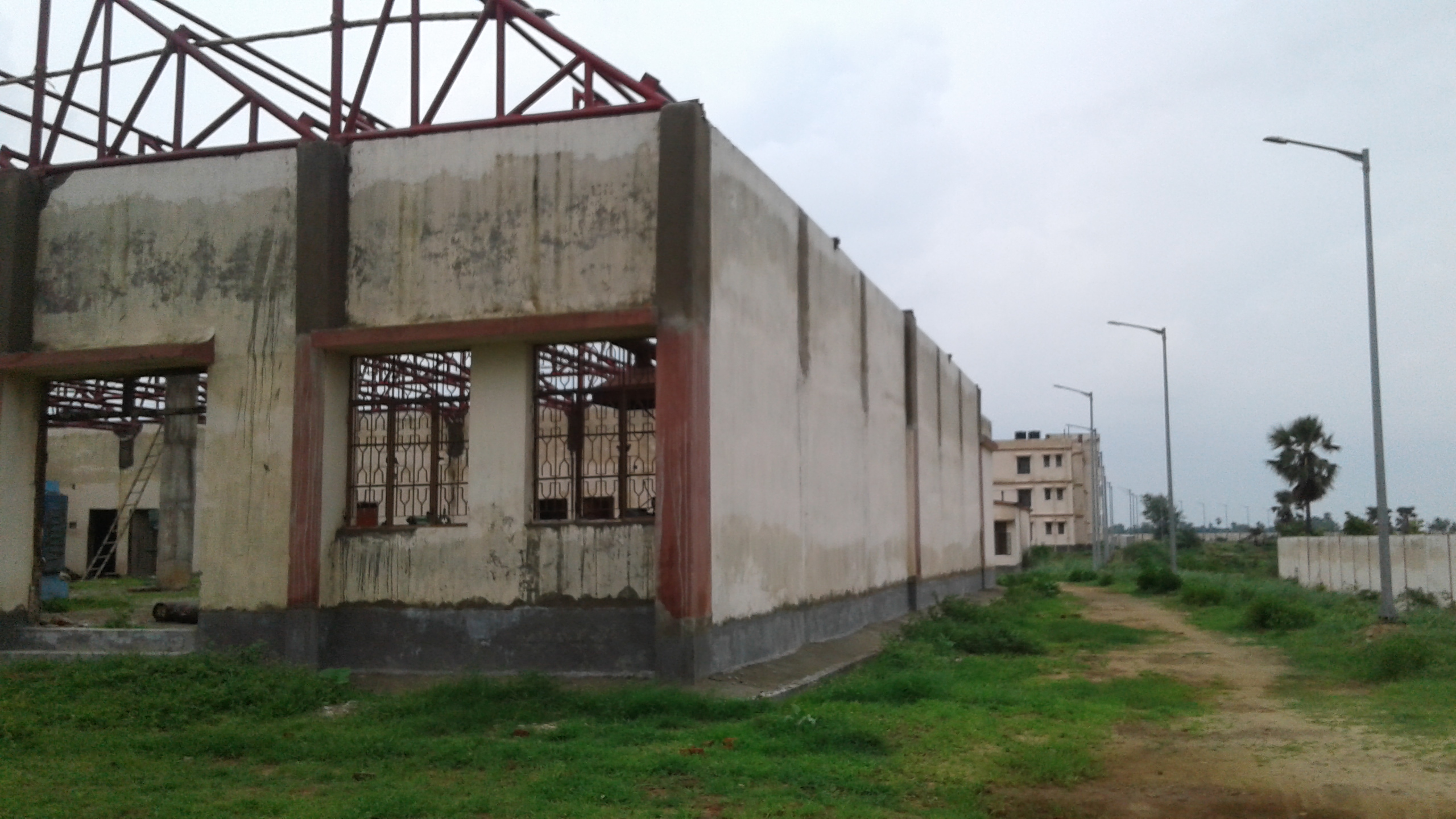 shershah engineering